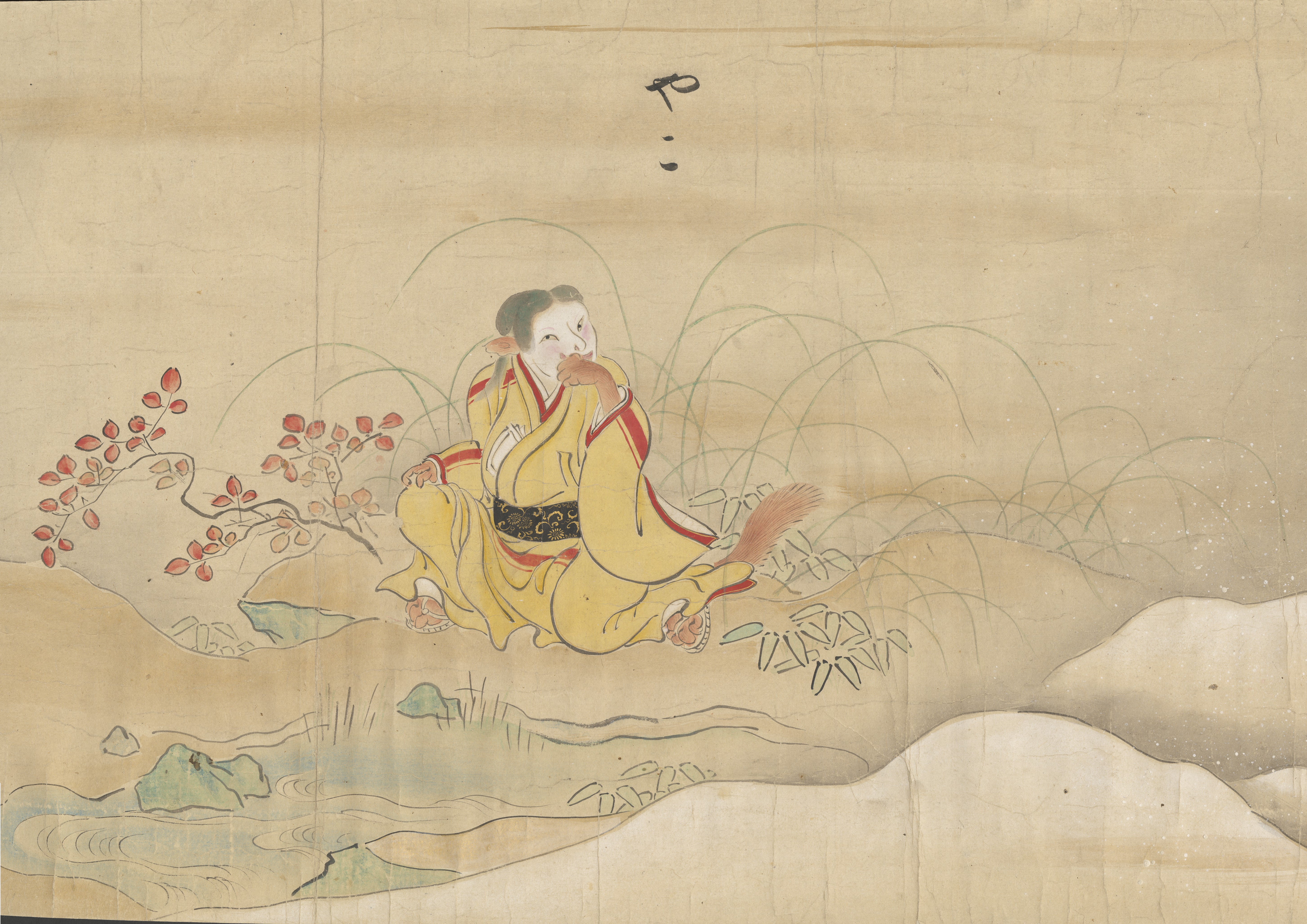 Yako 野狐 from Bakemono no e (化物之繪, c. 1700), Harry F. Bruning Collection of Japanese Books and Manuscripts, L. Tom Perry Special Collections, Harold B. Lee Library, Brigham Young University.